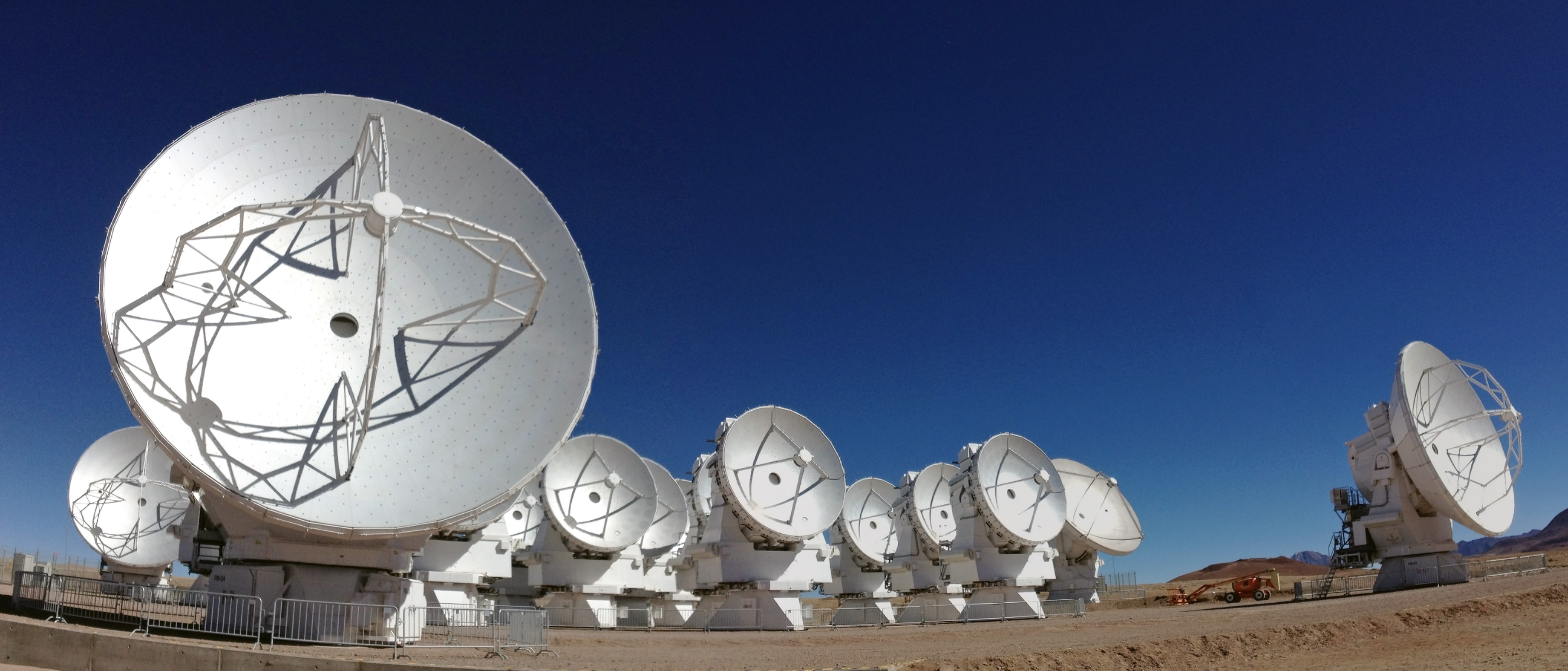 Atacama Compact Array (ACA) on the ALMA high site at an altitude of 5000 metres in northern Chile. The ACA is a subset of 16 closely separated antennas that will greatly improve ALMA’s ability to study celestial objects with a large angular size, such as molecular clouds and nearby galaxies. The antennas forming the Atacama Compact Array, four 12-metre antennas and twelve 7-metre antennas, were produced and delivered by Japan. In 2013 the Atacama Compact Array was named the Morita Array after Professor Koh-ichiro Morita, a member of the Japanese ALMA team and designer of the ACA, who suddenly passed away on 7 May 2012 in Santiago.